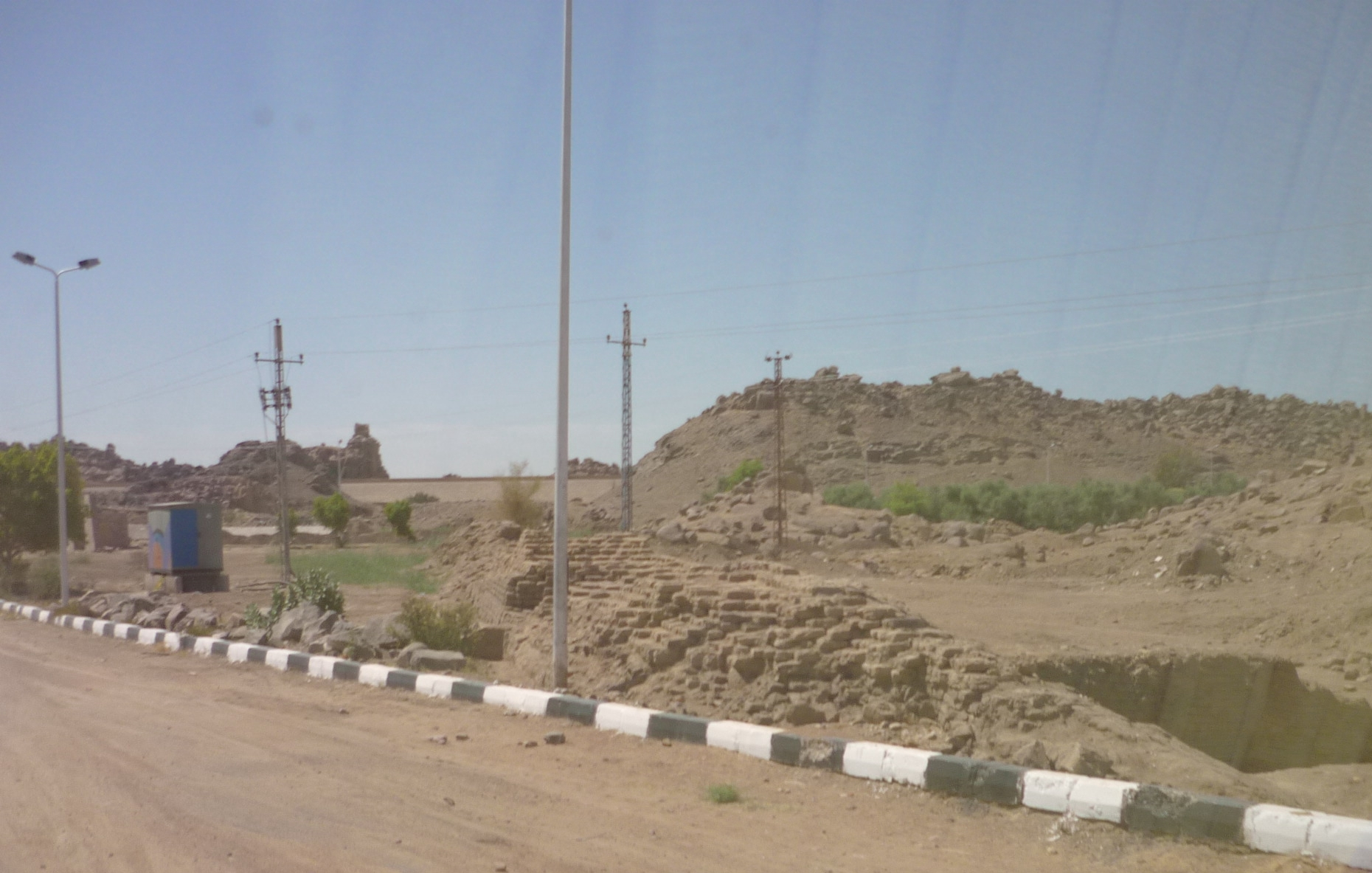 Aswan antic wall south of the city going to Philae, Egypt.